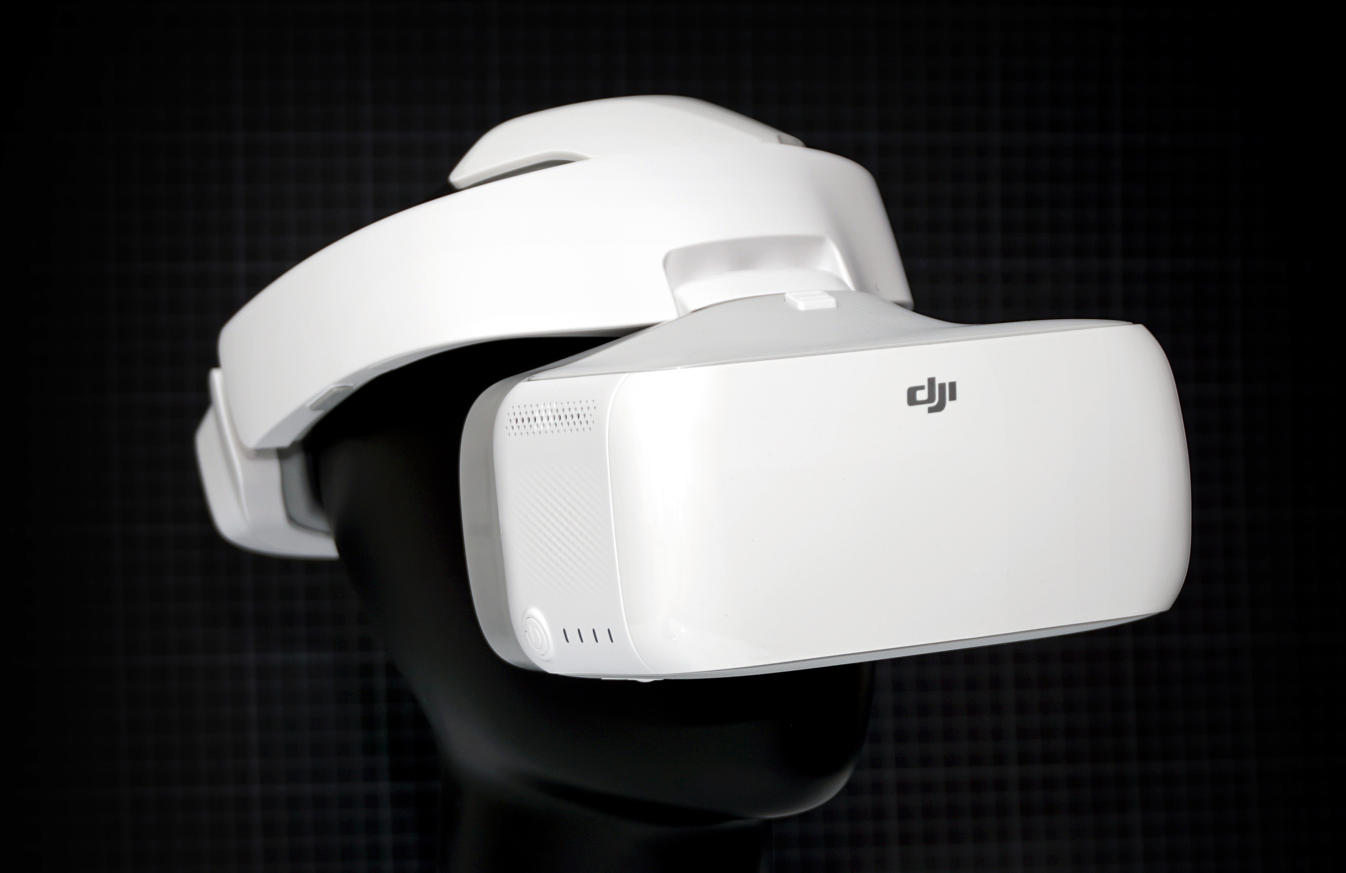 First Person View (FPV) Goggles from DJI